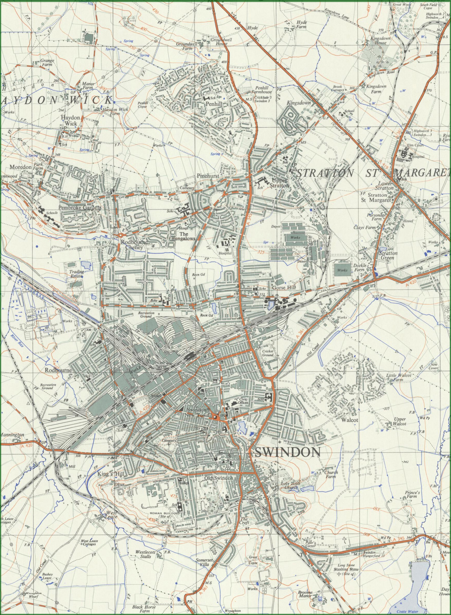 Extract of Ordnance Survey Map showing area around Swindon